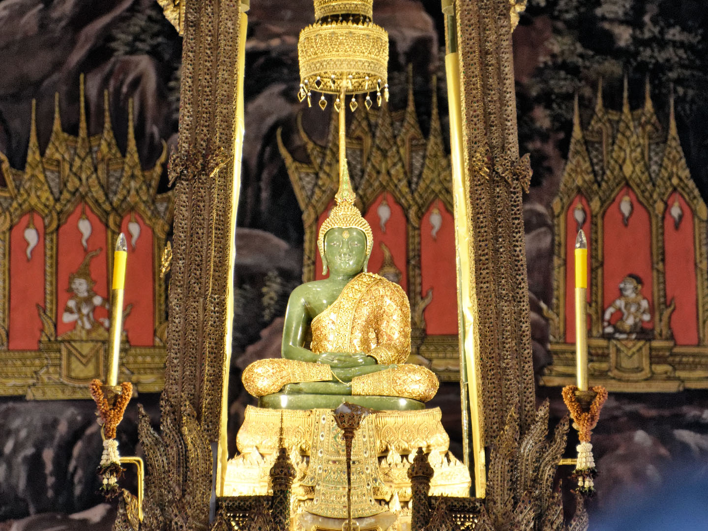 Image of Emerald Buddha in Rainy Season Vestments